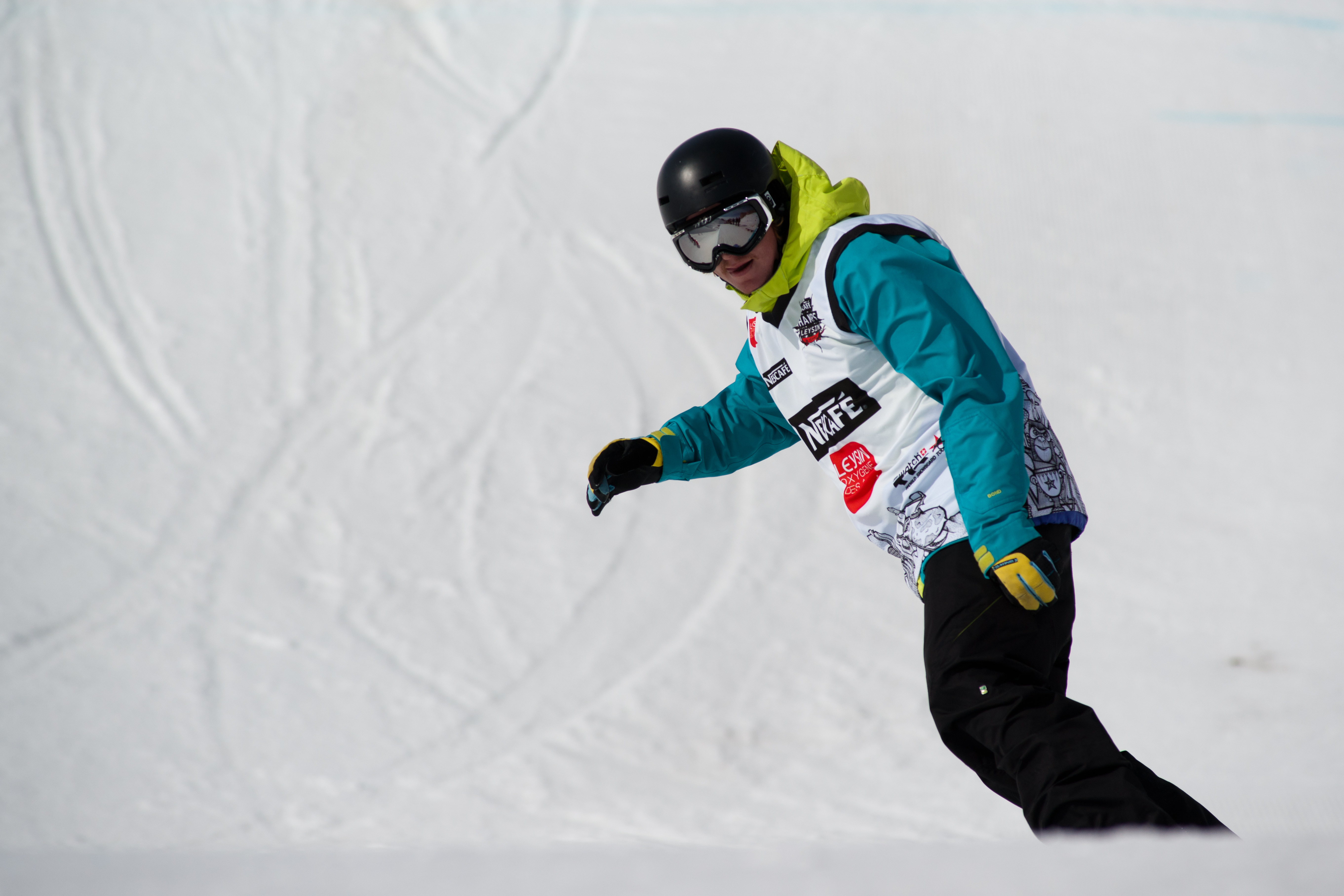 The making of this document was supported by Wikimedia CH. (Submit your project!) For all the files concerned, please see the category Supported by Wikimedia CH. 20th Leysin Nescafe Champs, 8th - 13th February 2011